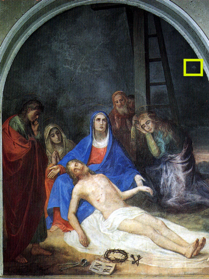 The Deposition